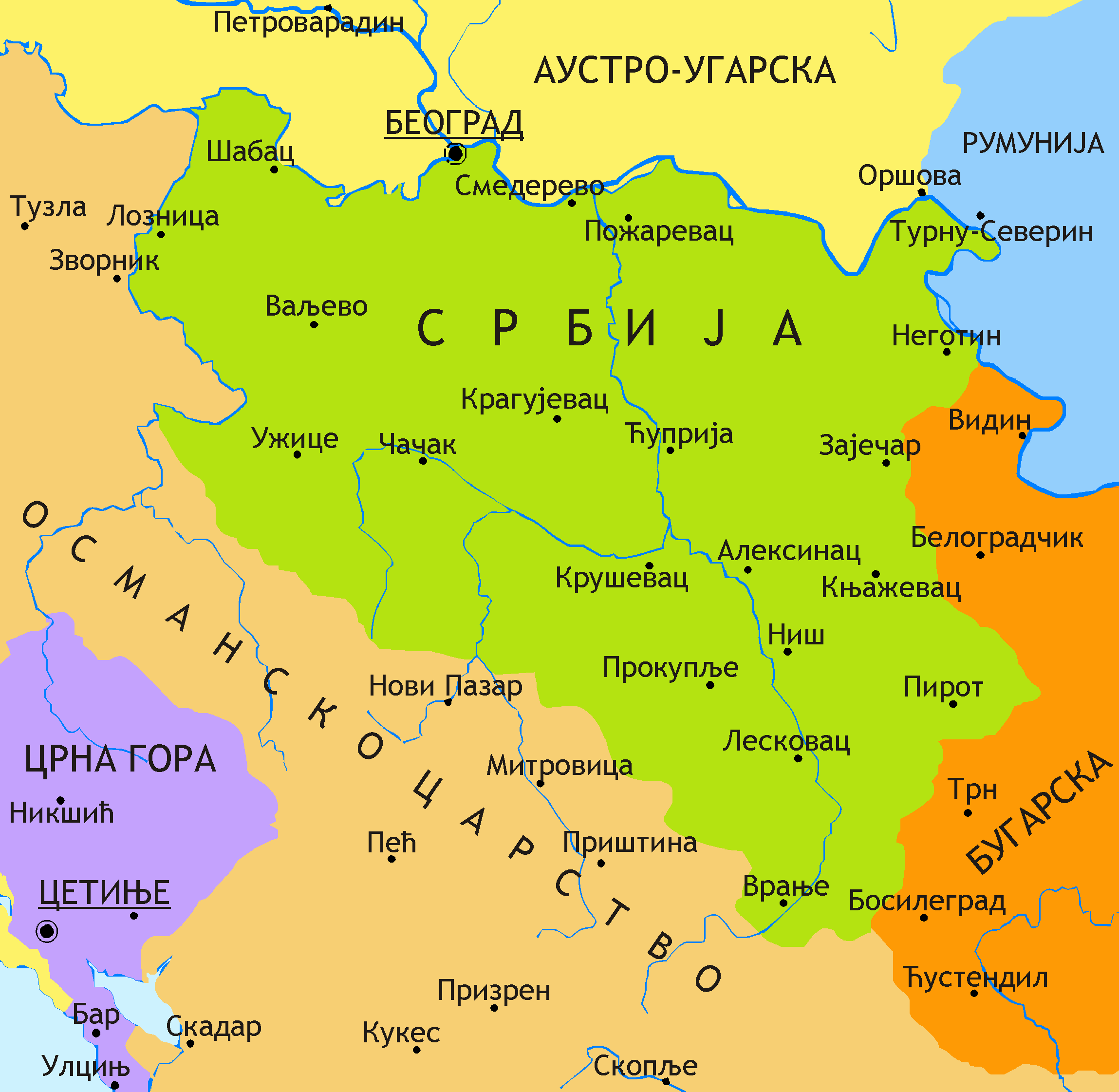 Principality of Serbia after Congress of Berlin in 1878